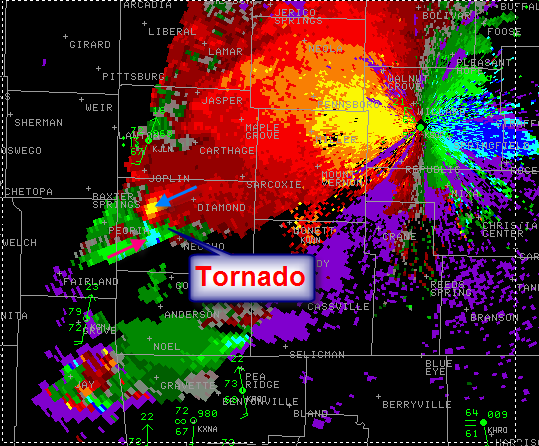 Velocity scan of the NWS Springfield, Missouri doppler radar indicated the intense circulation (thus the location of the tornado) situated due south of Joplin, Missouri or near the unincorporated community of Racine where 10 people were killed northwest of the area. Yellow dots indicate W-SW flow and blue/green dots indicate E-NE flow thus creating shear and strong rotation in the air. The storm had an estimated 130 knots of shear at that time. The time of the scan was at around 5:00 PM CDT.